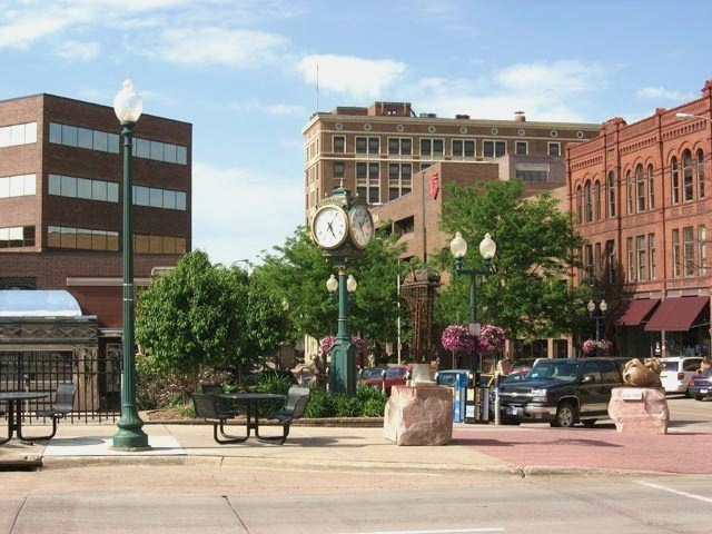 Downtown Sioux Falls, South Dakota, USA. Looking north northeast up Phillips Avenue from West 10th Street.